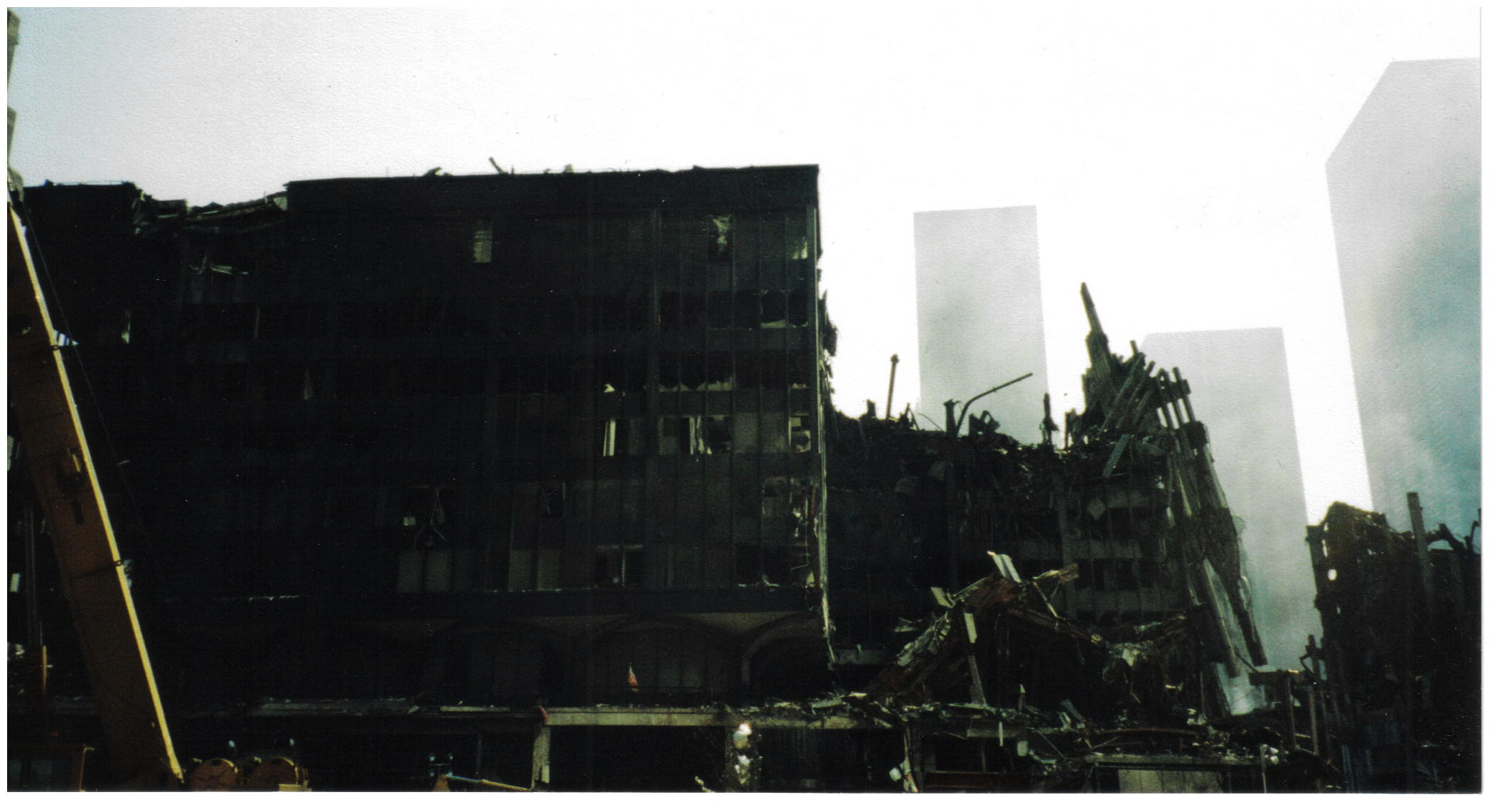 6 World Trade Center after the 11 September 2001 attacks as seen from West Side Highway. Original description by author: "View of 3 World Trade Center from the West Side Highway (West Street). Note American flag visible through window on second floor. Taken by me in September, 2001." (6WTC erroneously called 3WTC)